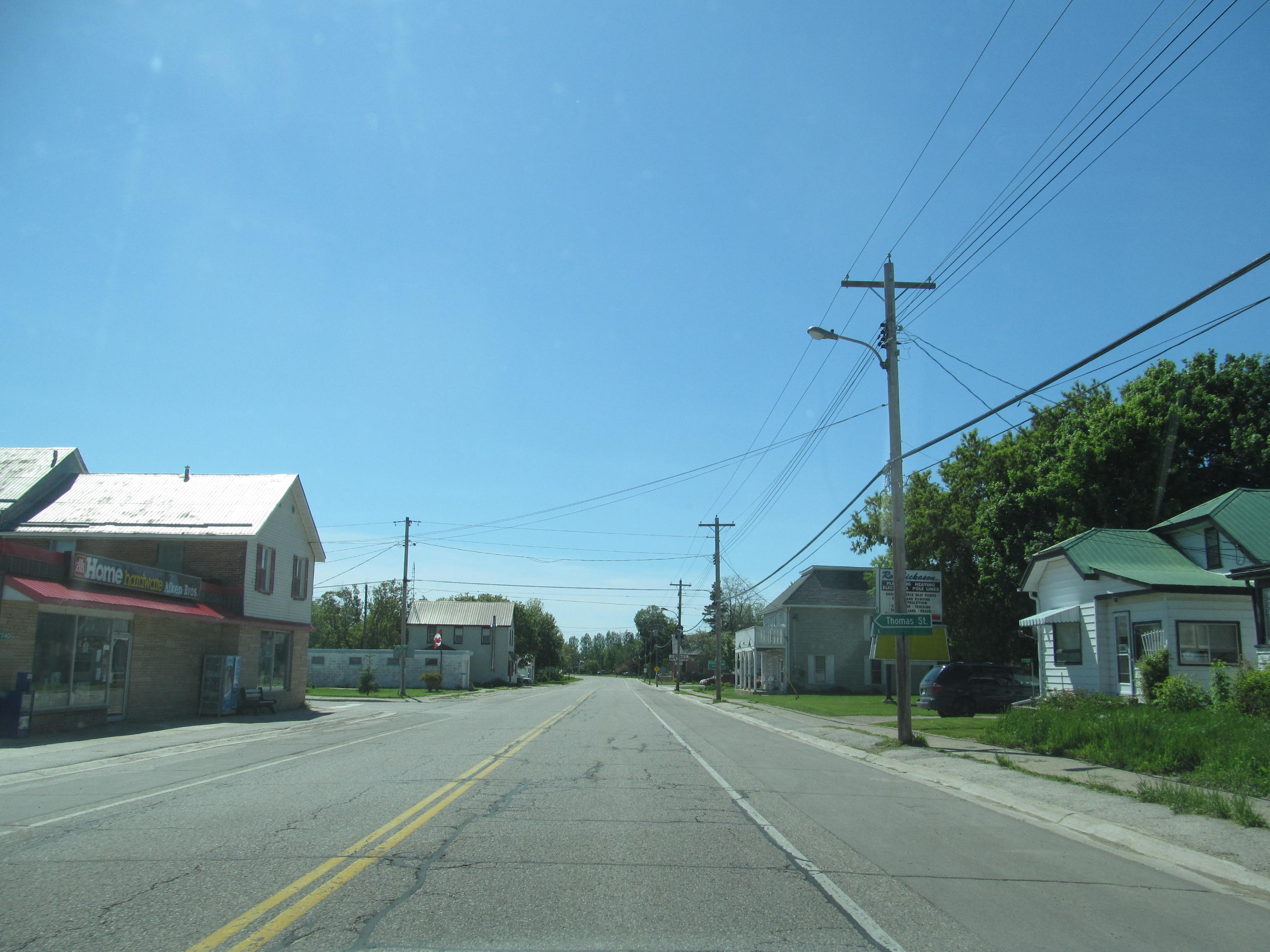 Allenford, Ontario, Canada (from Highway 21).